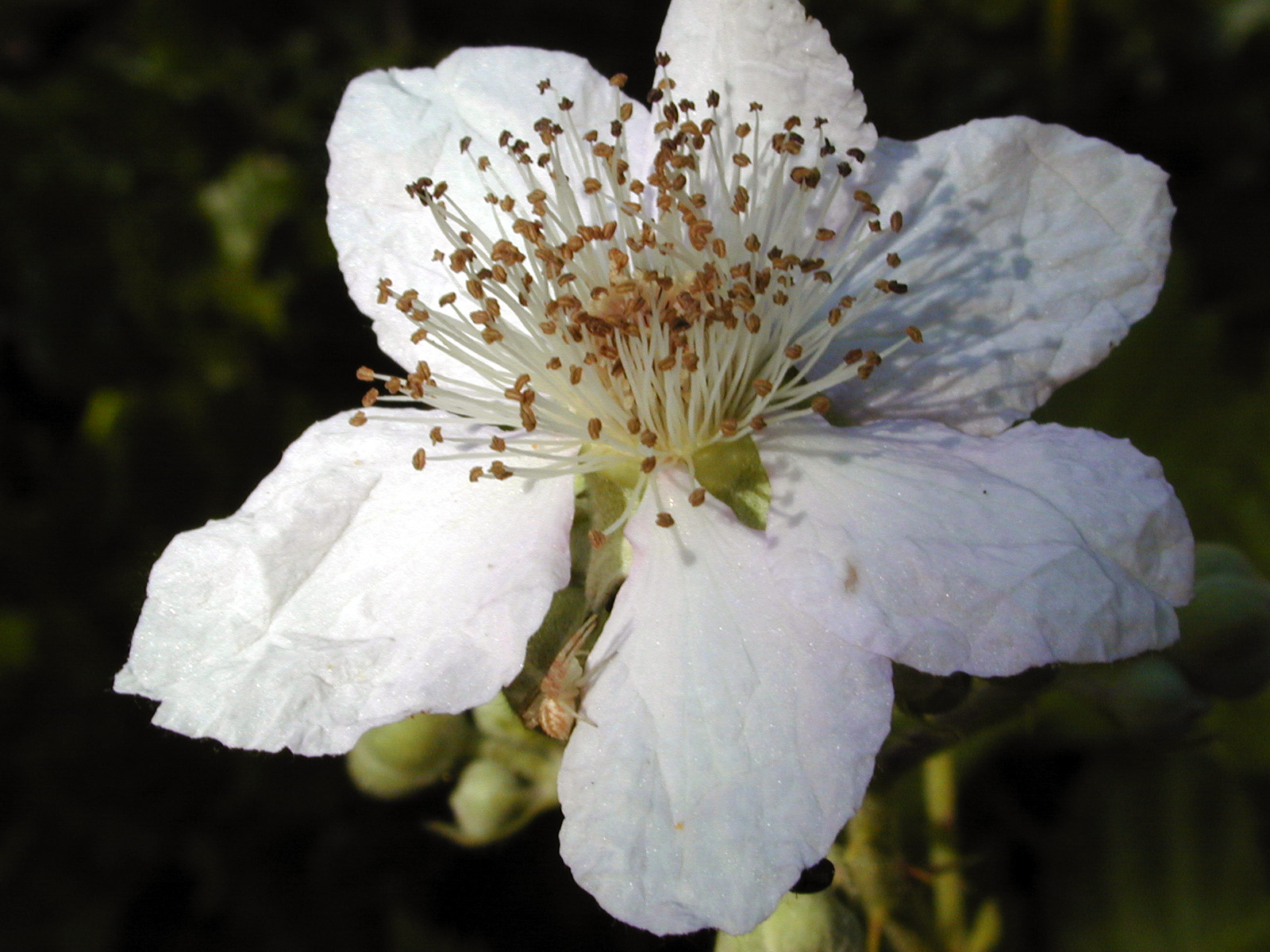 Himalayan Blackberry, Rubus armeniacus. Found at Monte Bello Open Space Preserve on the Canyon Trail along the length of the sag pond. (Jepson) (Geotagged)